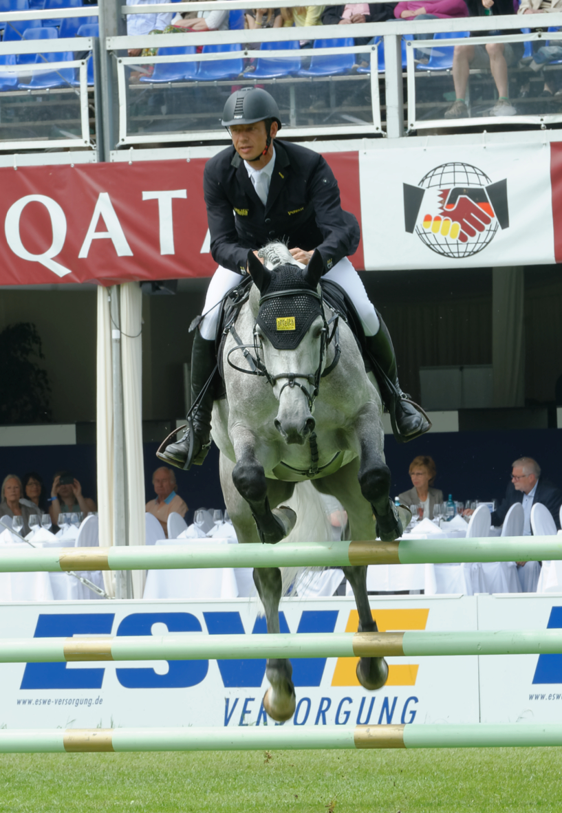 CSIYH* int. Springprüfung nach Strafpunkten und Zeit Internationales Pfingstturnier Wiesbaden 2015 The making of this document was supported by the Community-Budget of Wikimedia Germany.